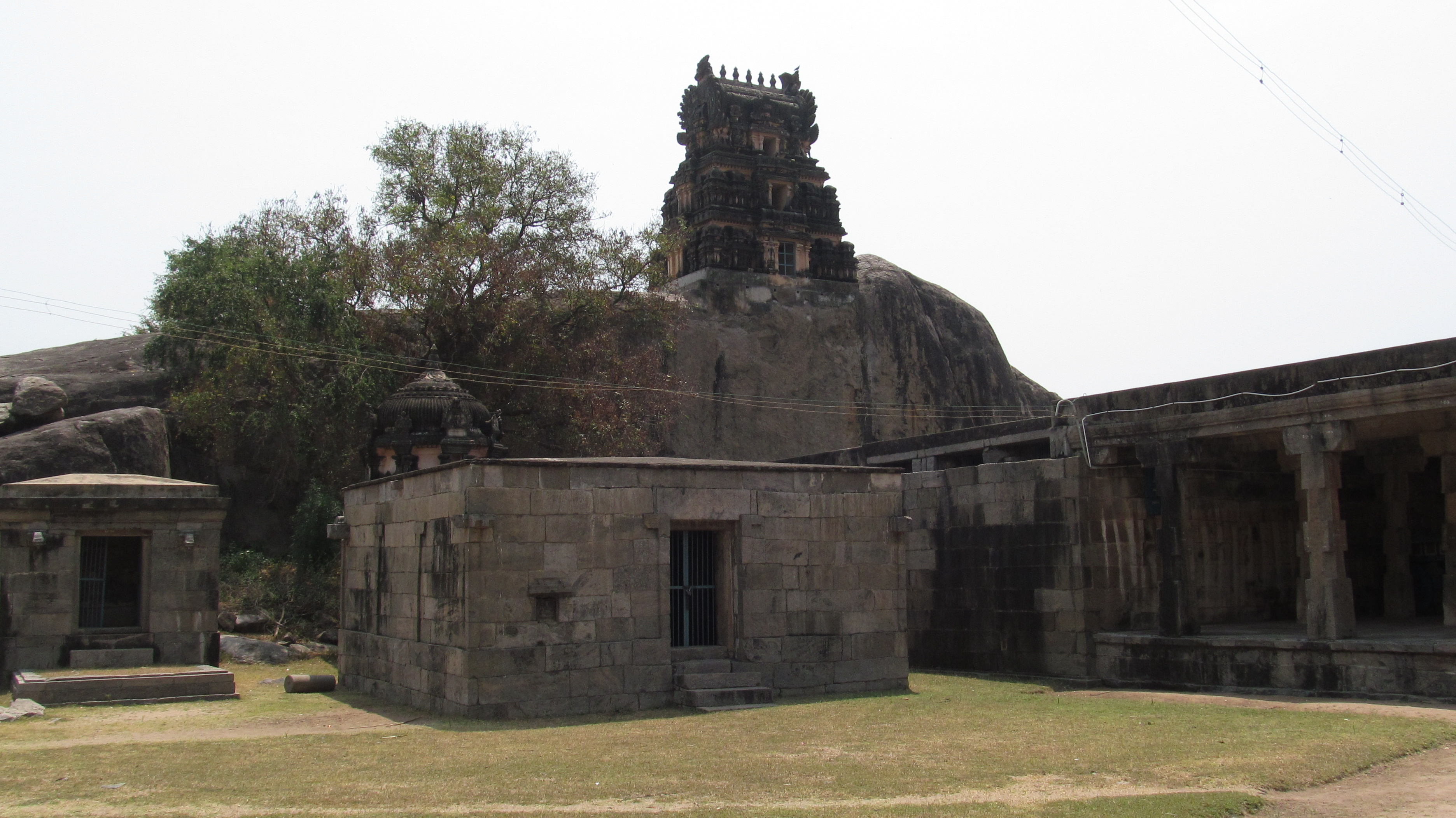 Rock Cut Temple And Sculptures